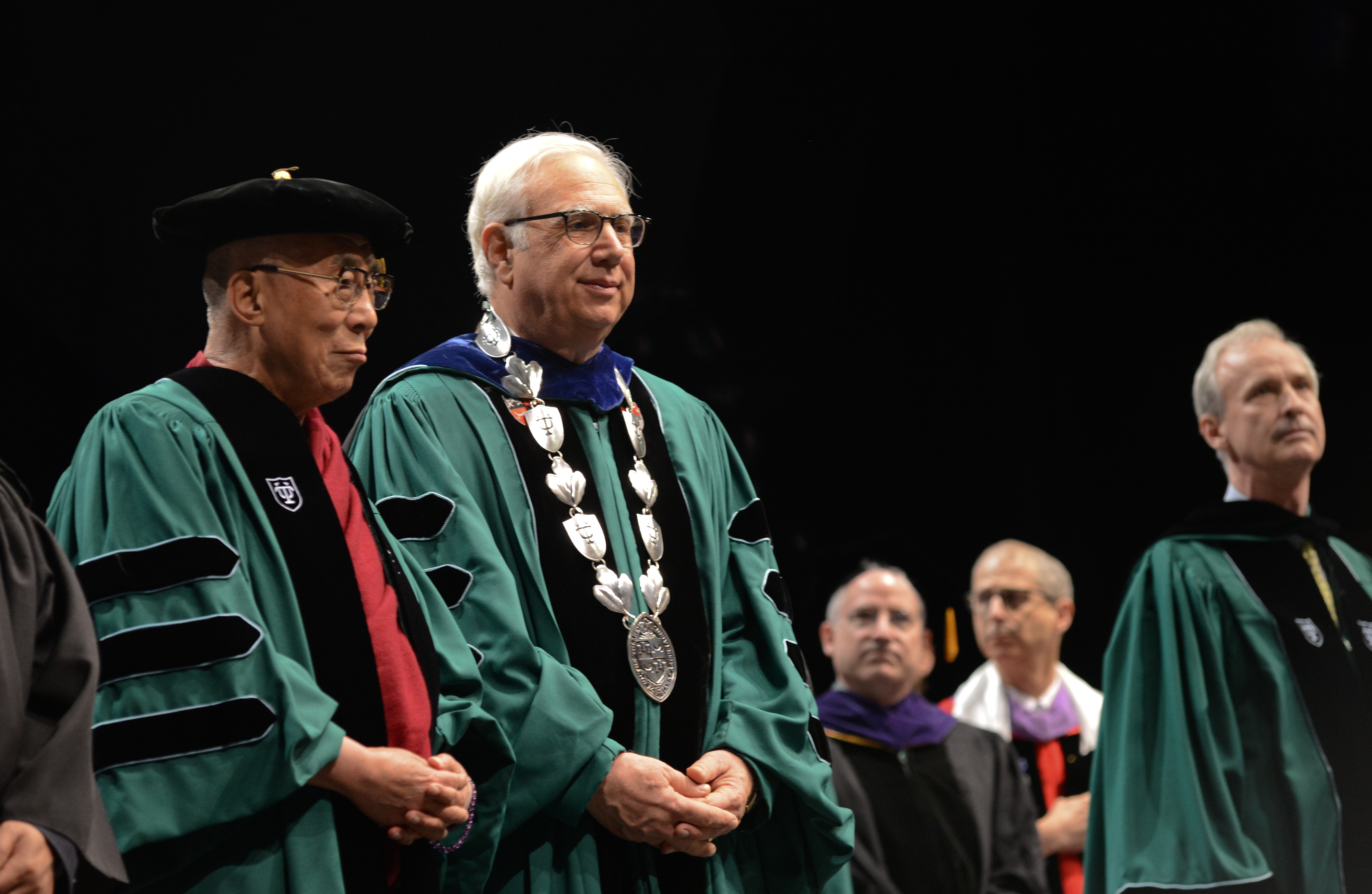 Graduation 2013-104